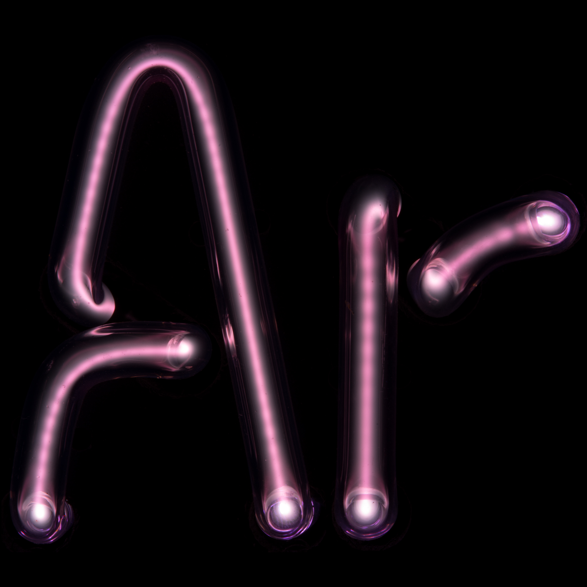 Image of an argon filled discharge tube shaped like the element’s atomic symbol.